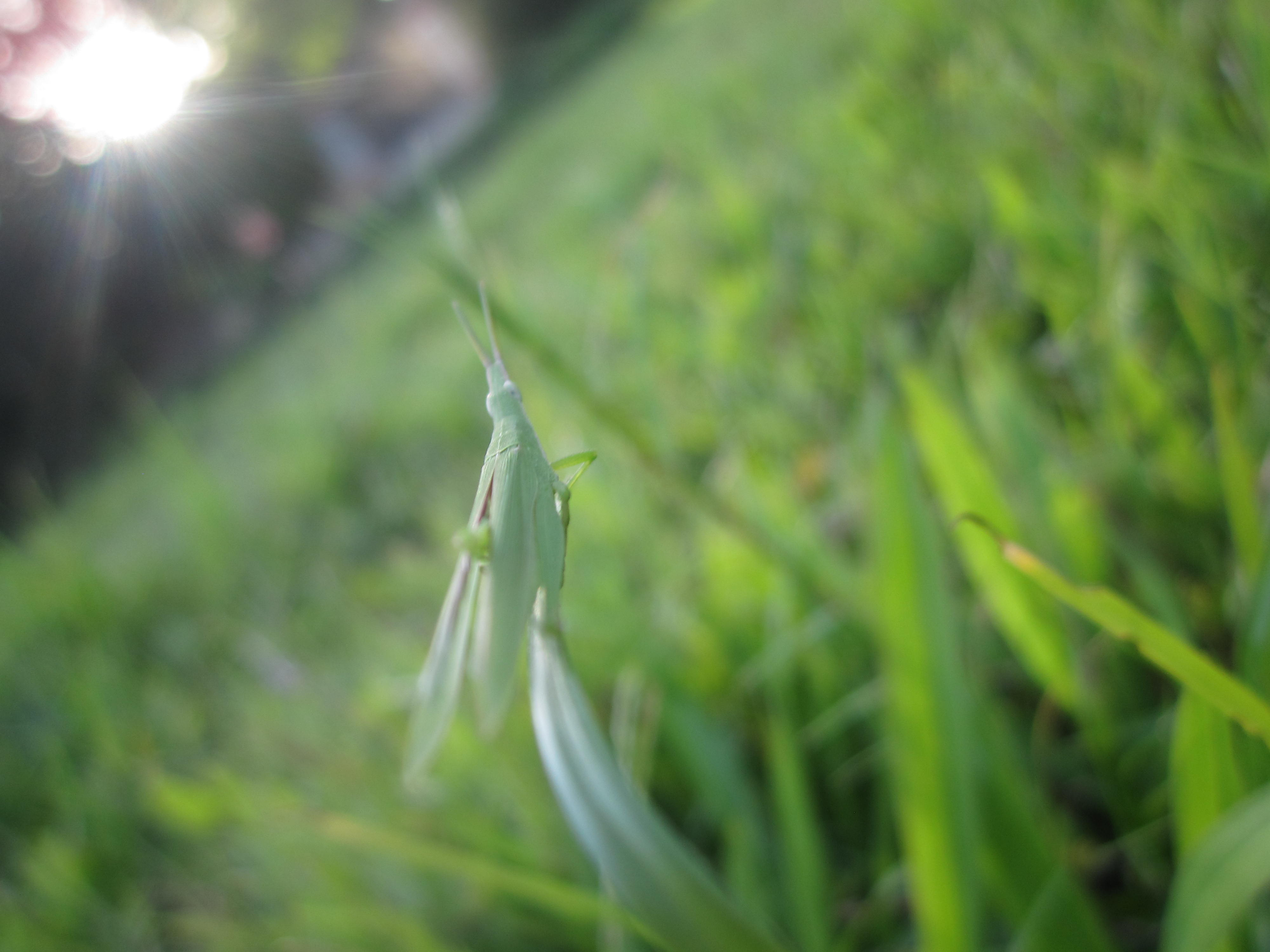 A photo of an Grasshopper (Caelifera) in Vietnam.